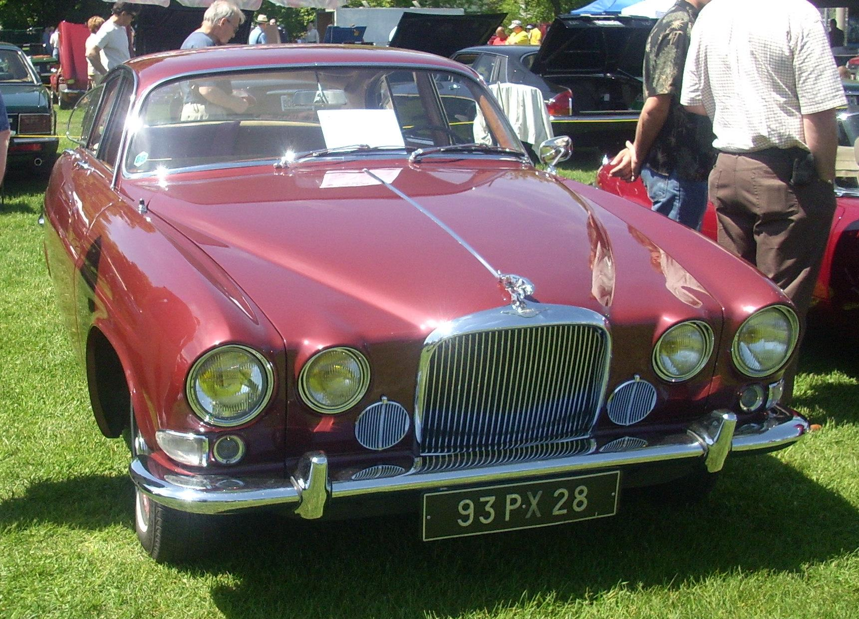 1963 Jaguar Mark X photographed at the 2008 Hudson British Car Show.